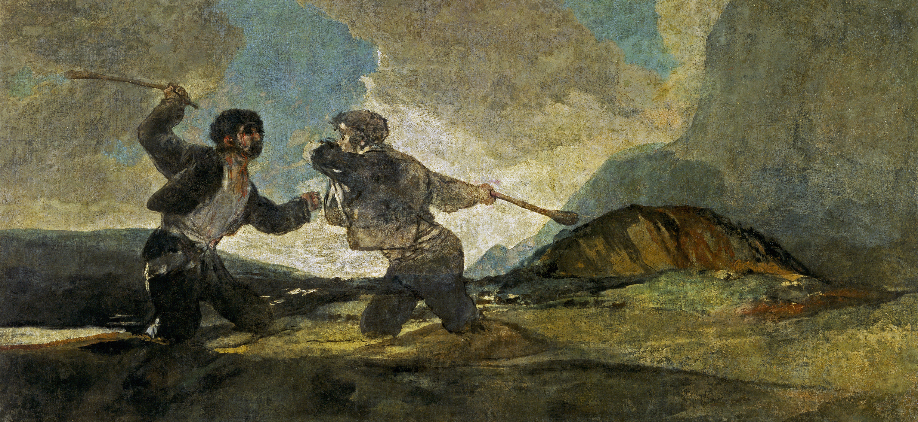 This painting is part of the "Black Paintings" series and depicts two men with cudgels fighting